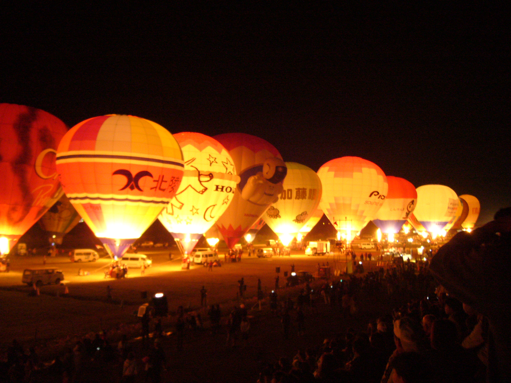 This is an event of the Saga international balloon festival, and a photograph of Ra Mongolfienoctu n.